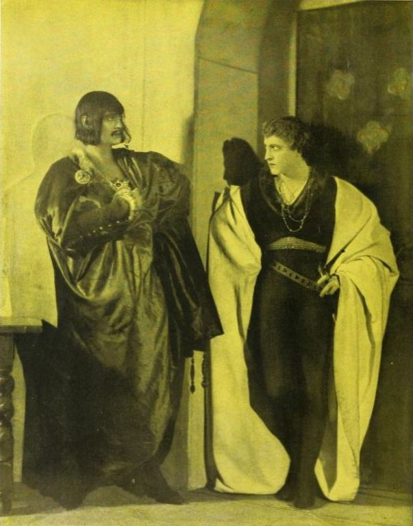 John and Lionel Barrymore in Arthur Hopkin's production of The Jest on Broadway, on page 18 of the September 1919 Shadowland.